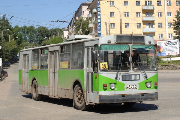 ZIU-9 trolleybus 566 in Kirov, Russia